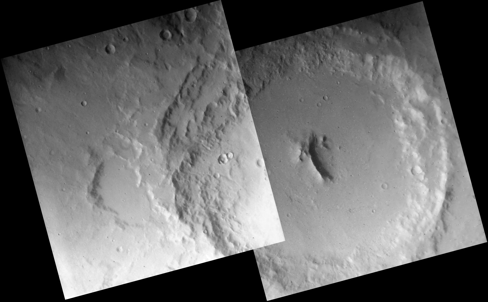 Luzin crater on Mars. Mosaic of two Viking 1 images from camera B (214A20, 214A22). Clear filter was used for these images. Resolution is about 75 m/pixel. North is up. Both images were despeckled prior to mosaicing. Statistics below are for the right image: Emission Angle: 13.2 Incidence Angle: 69.4 Latitude: 27.1 Longitude: 31.5 Phase Angle: 57.1